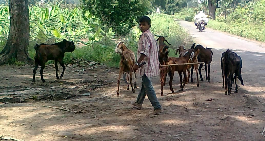 A herdboy driving his goats for grazing at Chinawal village, India